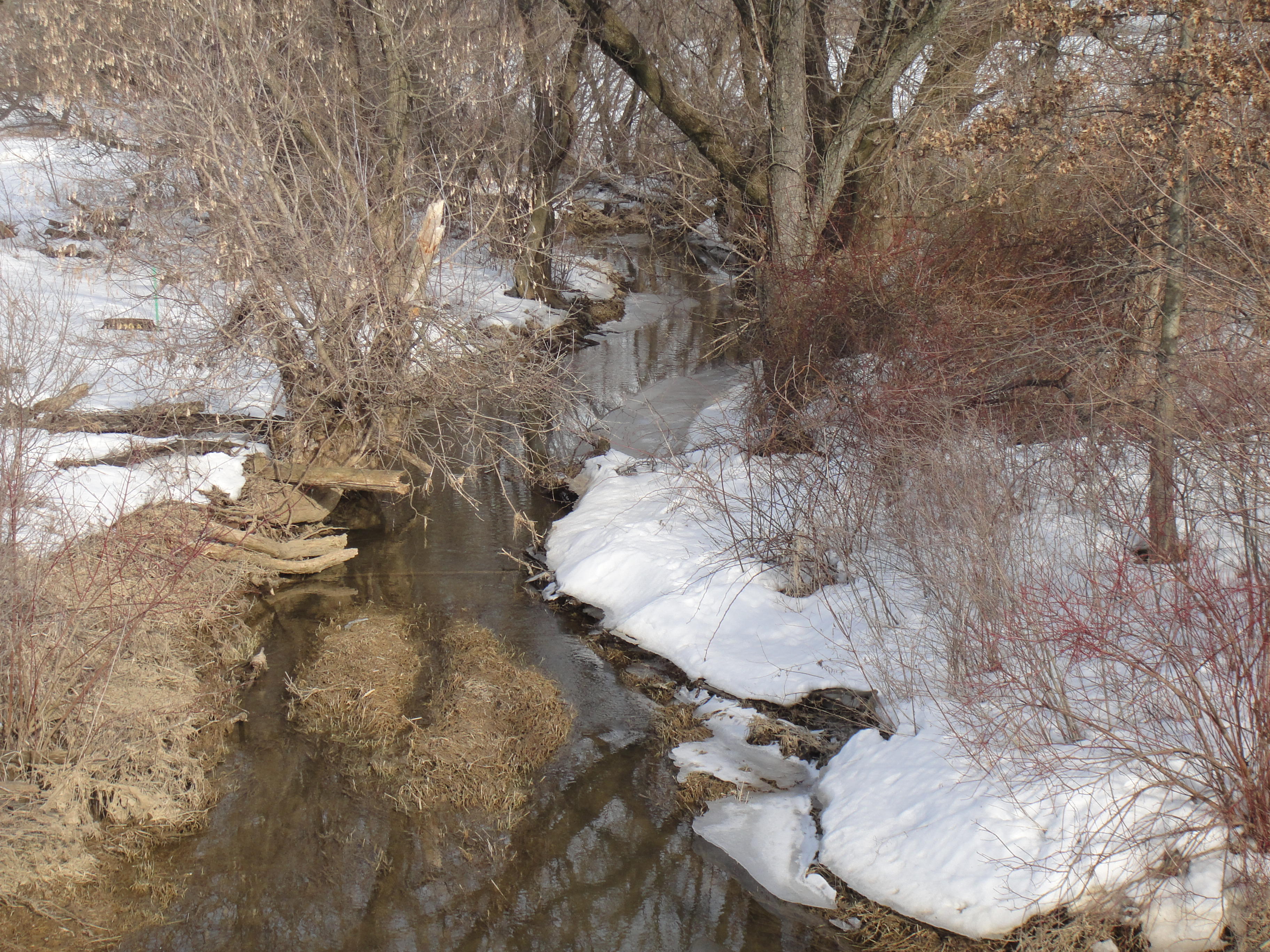 View of Schaefer Run flowing in Breinigsville